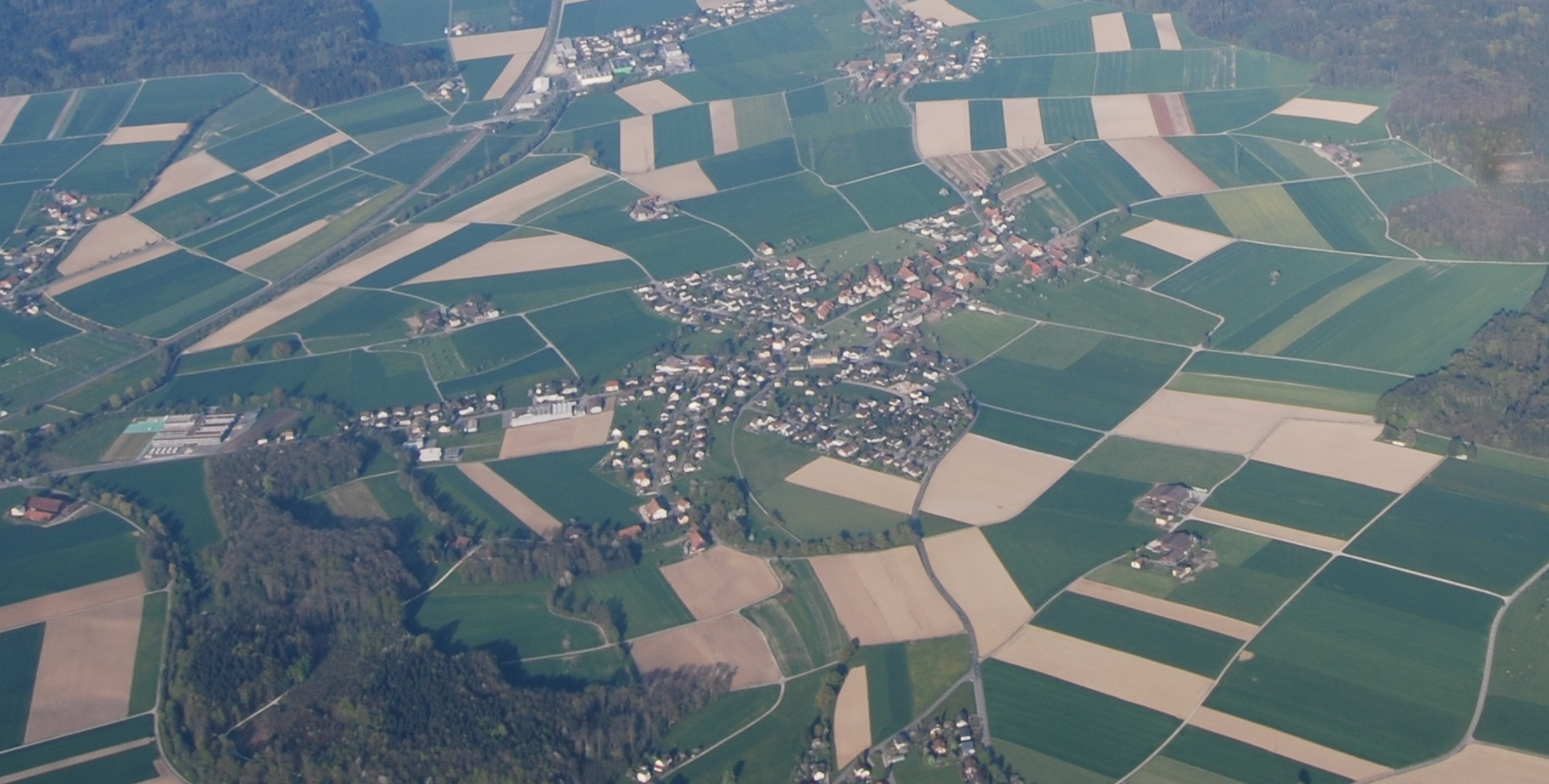 Horriwil, canton of Solothurn, Switzerland